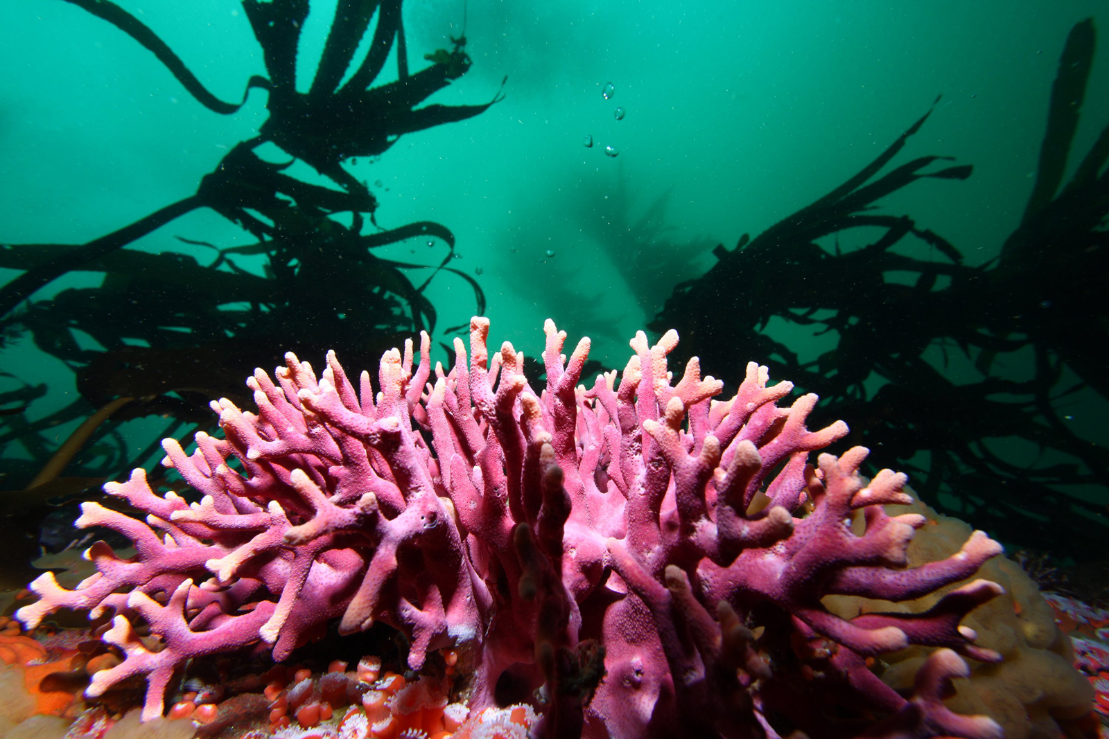 California hidrocoral (Stylaster californicus) ocurre en áreas con corrientes como the Outer PInnacles. en Monterey, EE.UU.